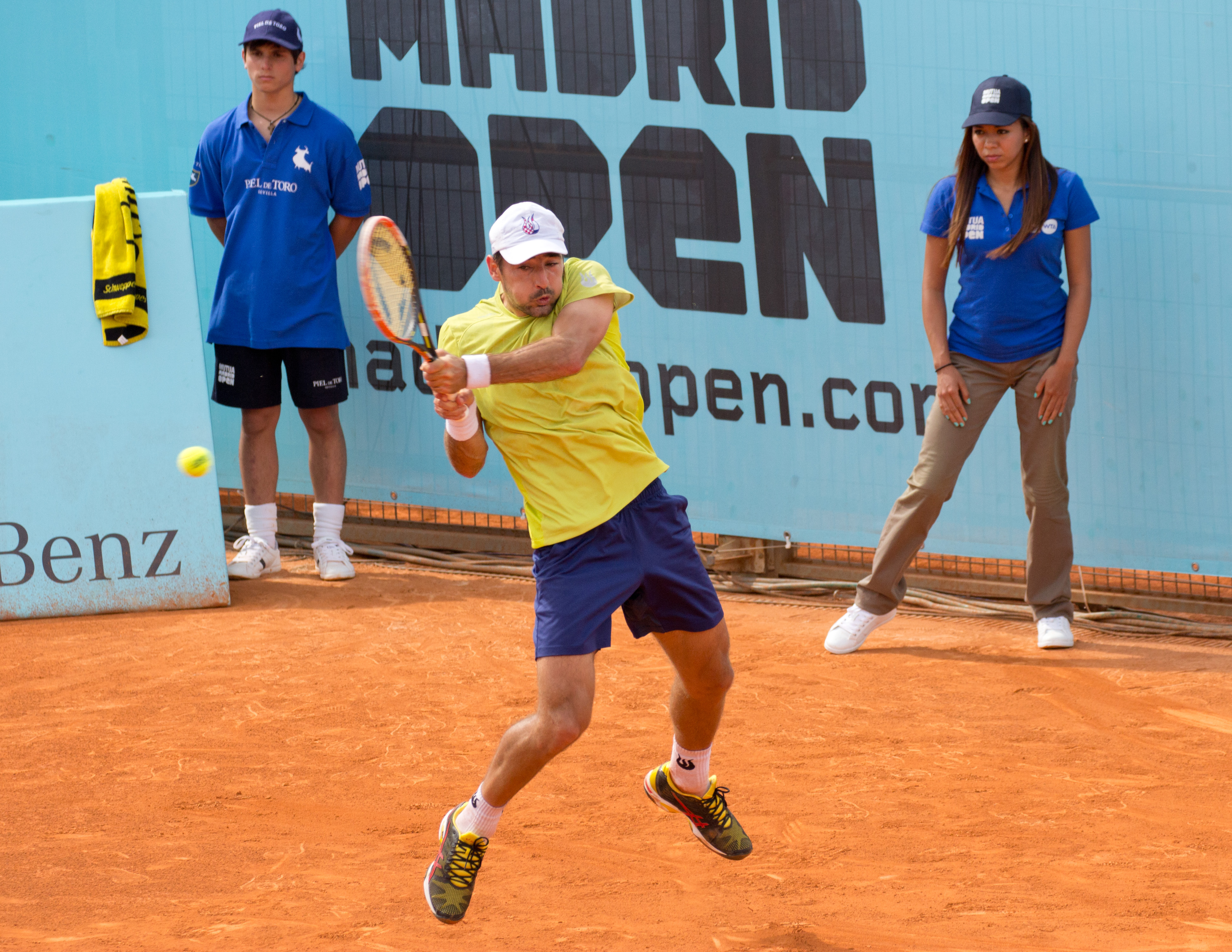 Ivan Dodig at the Madrid Open 2015, Madrid, Spain.